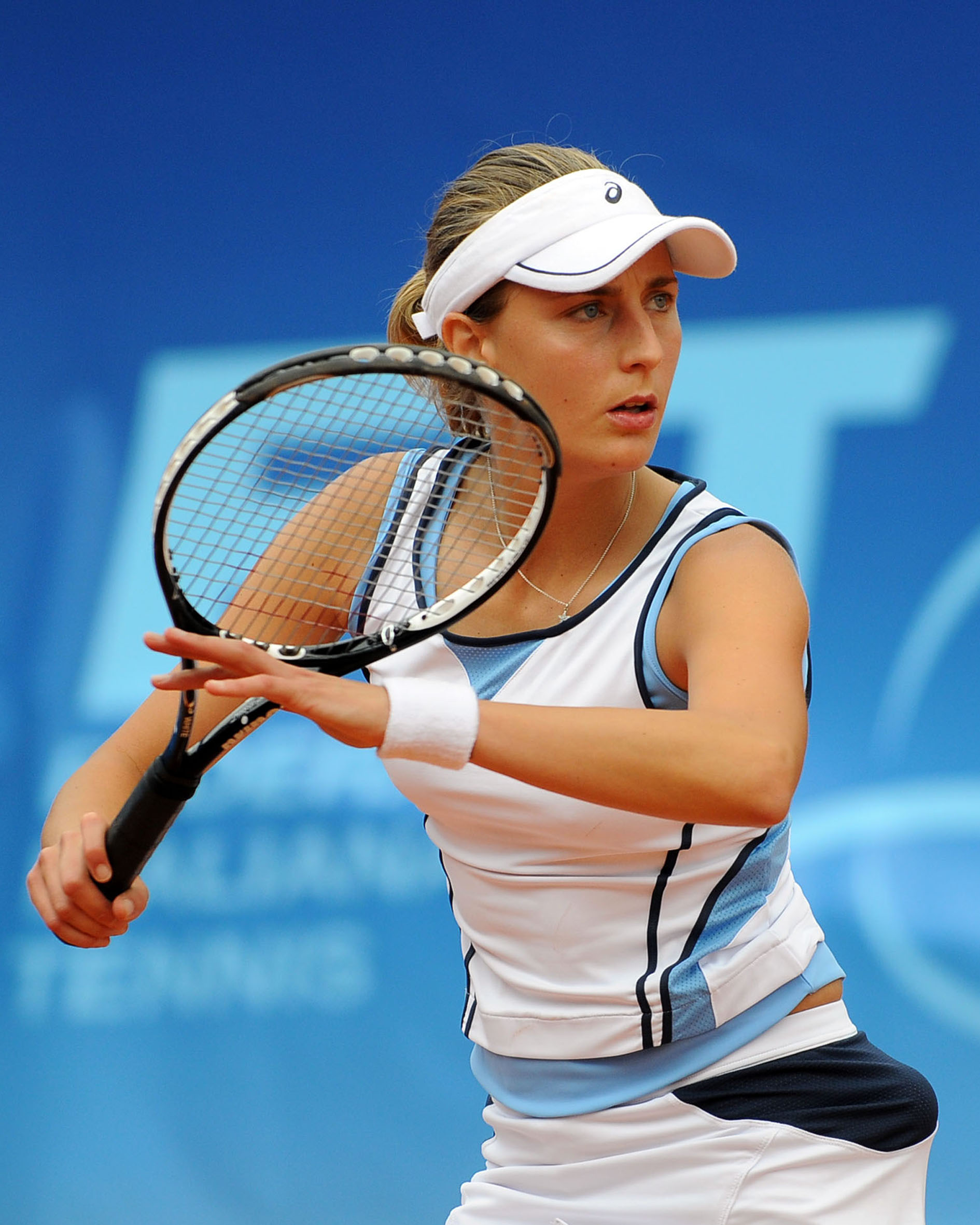 Mara Santangelo at Biella ITF tournament, Italy